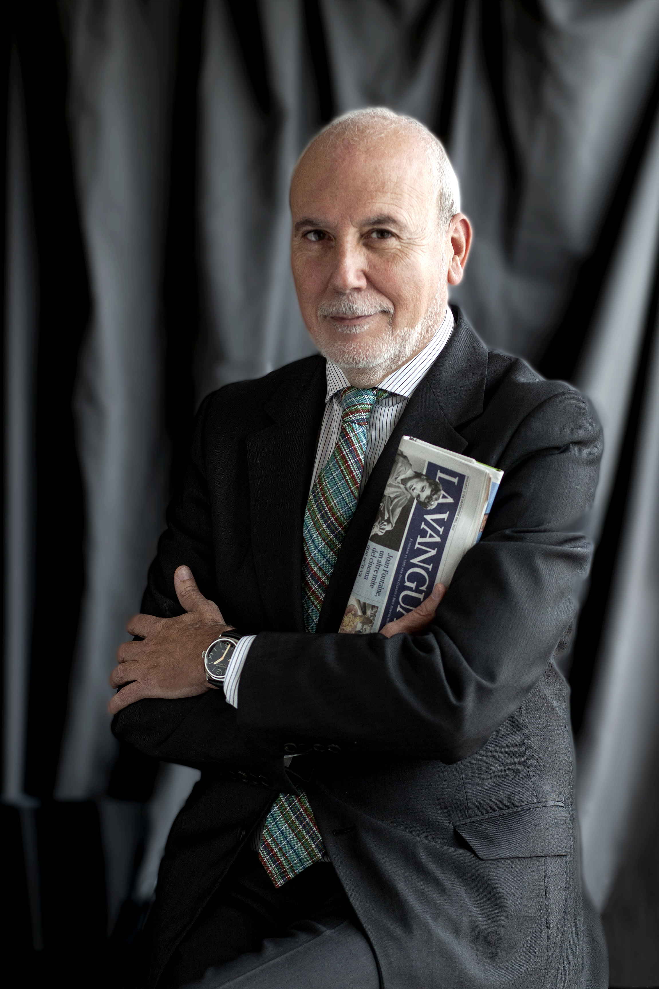 Màrius Carol, executive editor of La Vanguardia newspaper